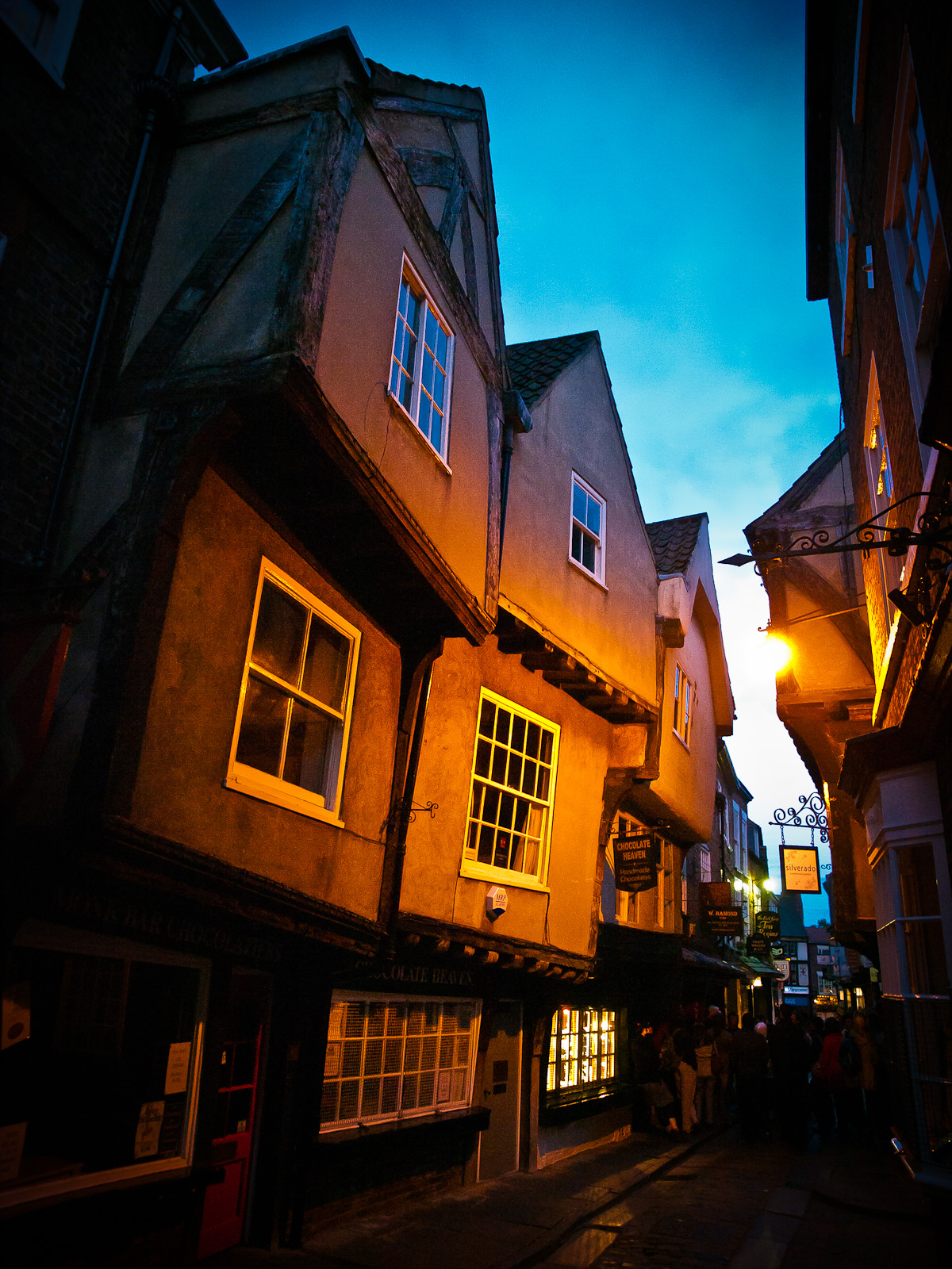 The Shambles, York.